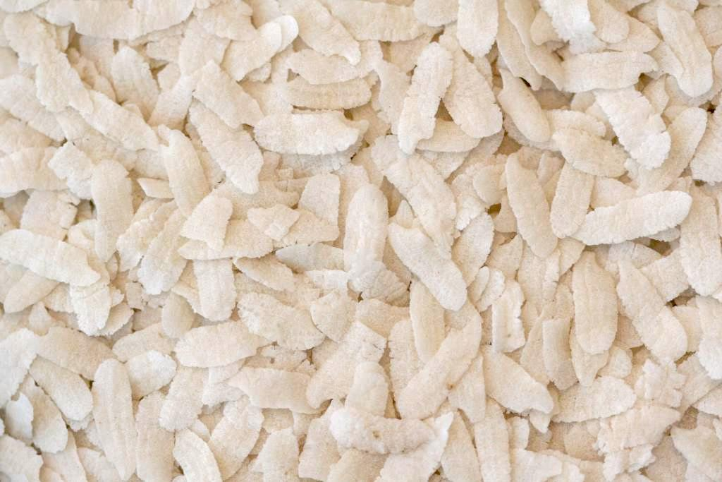 Picture showing pressed rice flakes.